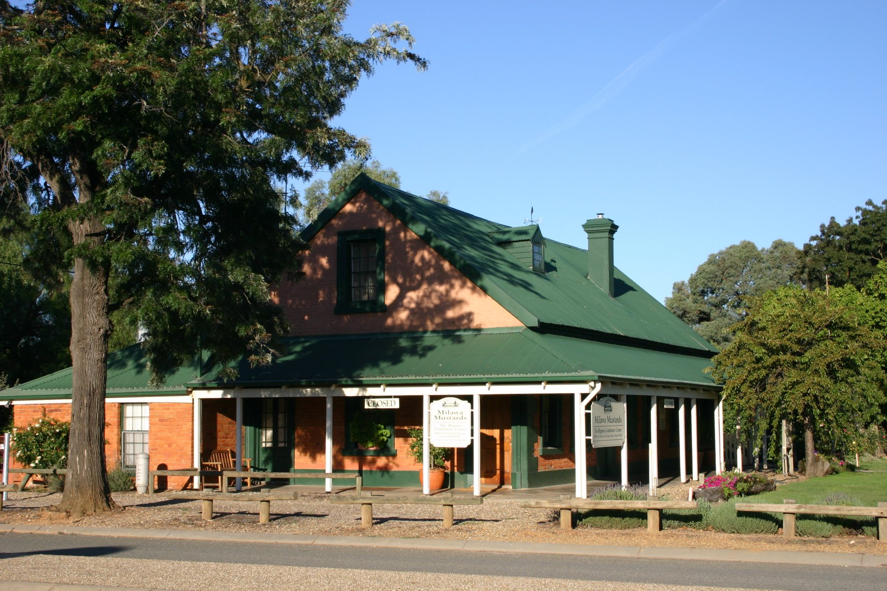 The Mustard Cottage at Milawa, Victoria, Australia